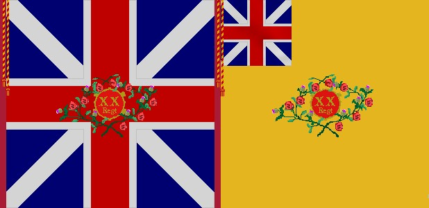 20th (East Devonshire) Regiment of Foot - Lancashire Fusiliers